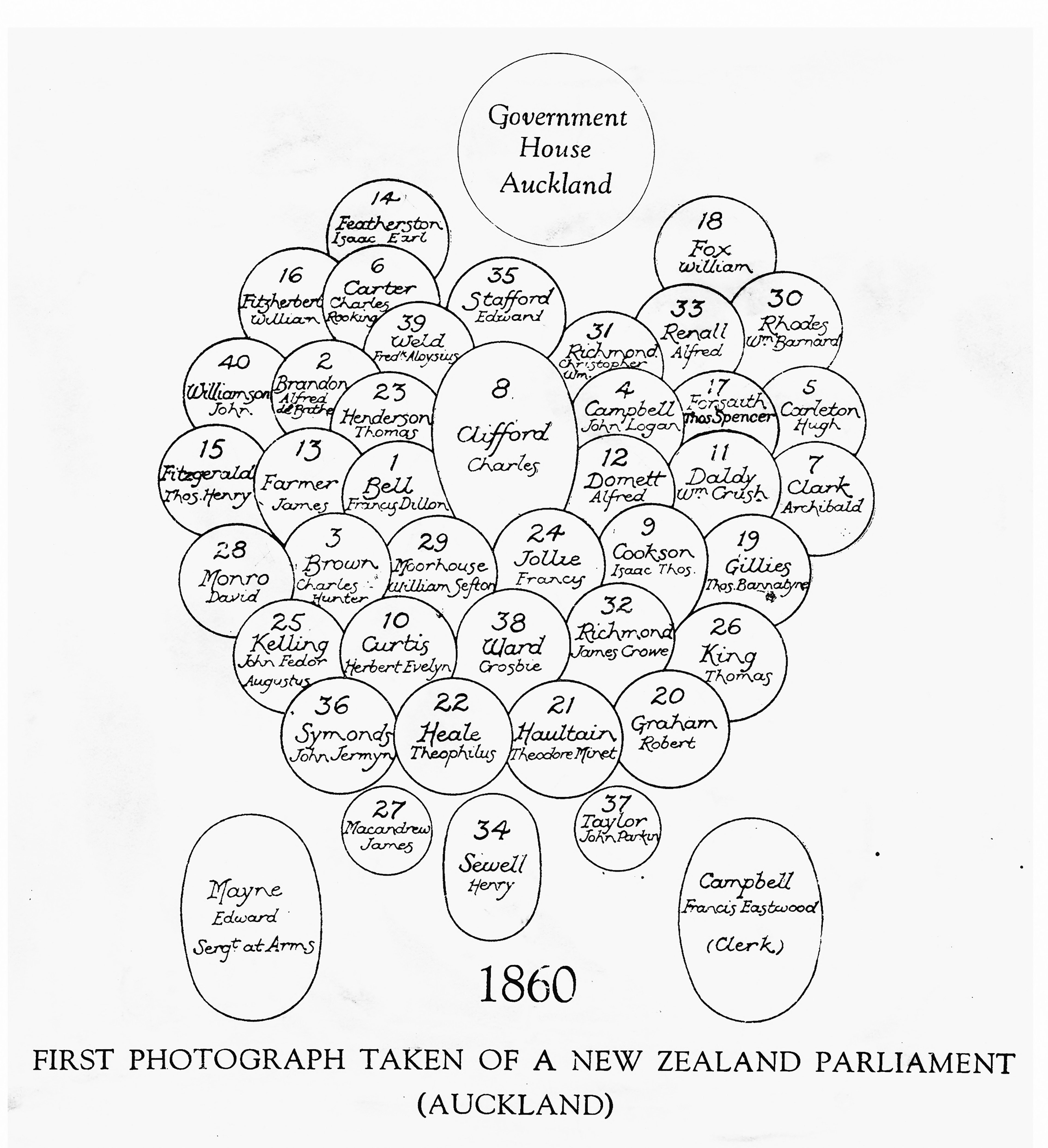 This is the key that goes with File:1860 Parliament.jpg